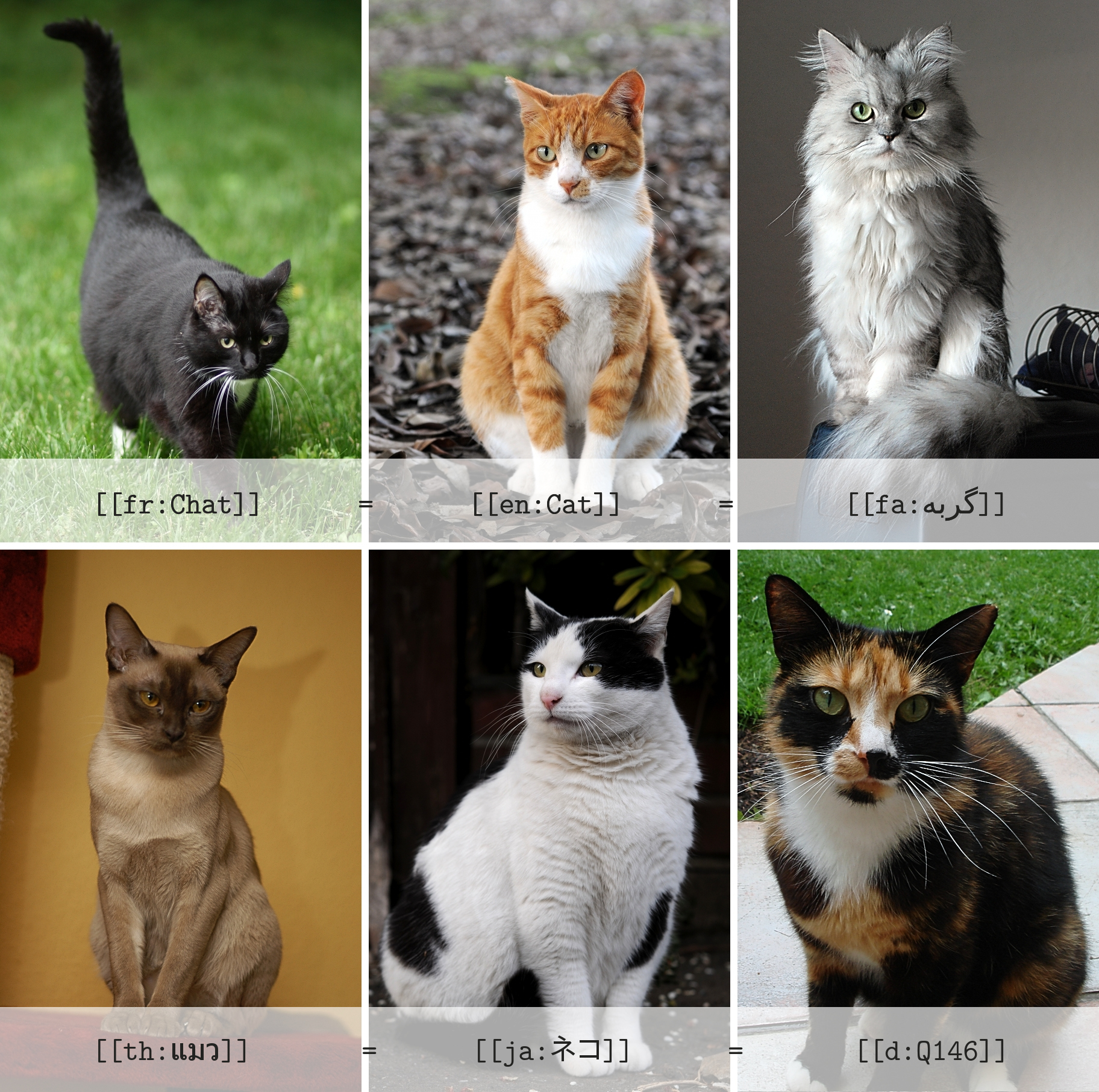 Sitelinks explained with cats